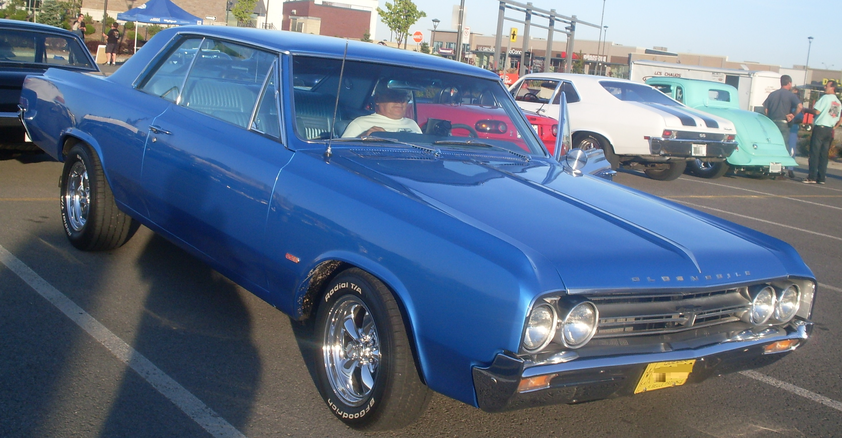 1964 Oldsmobile 442 photographed in Laval, Quebec, Canada at Les chauds vendredis.